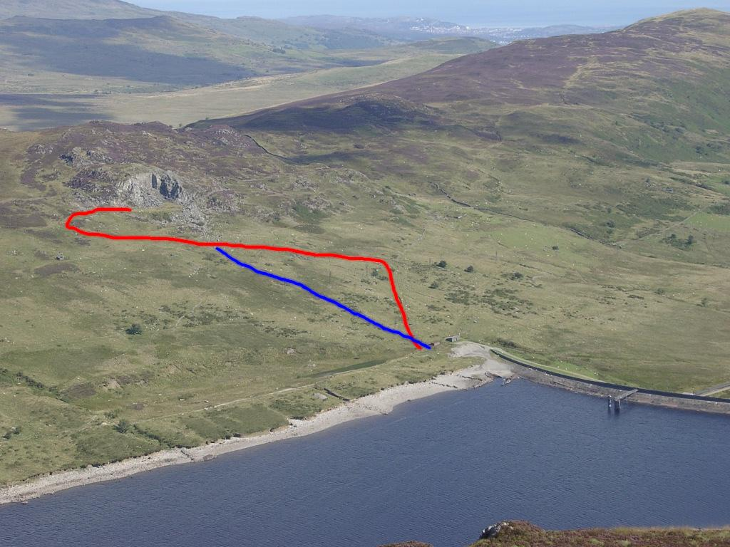 Photo of Llyn Cowlyd dam, with the line of the incline to the quarry (blue), plus the line of a later vehicle track (red).